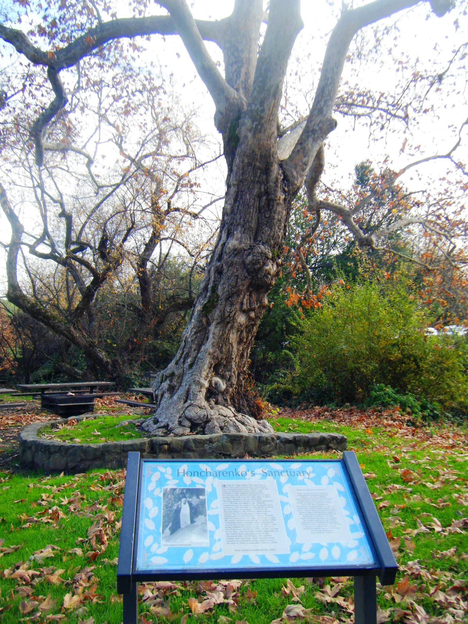 Ukrania, Site of Agapius Honcharenko Farmstead